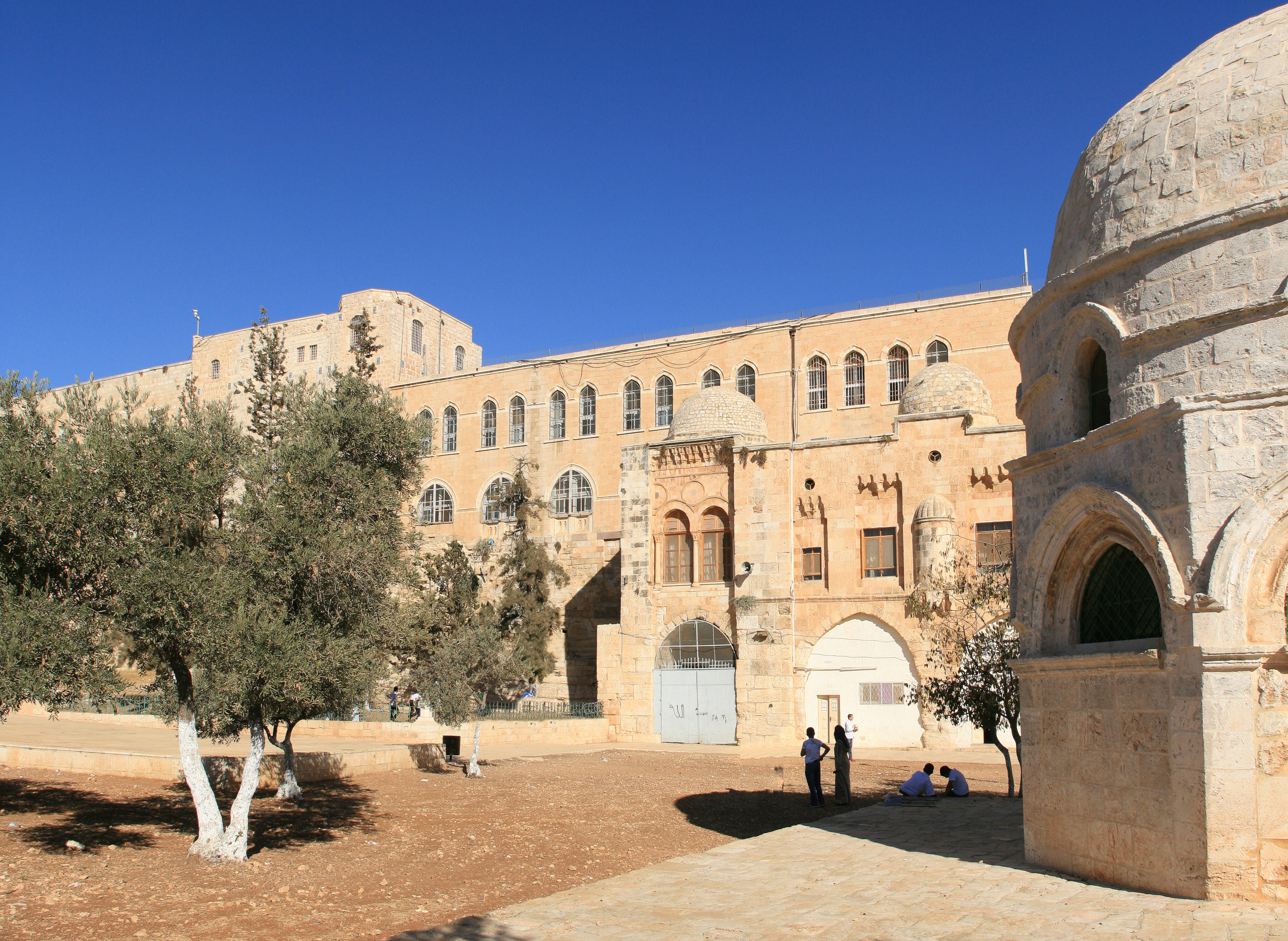 Madrasa al-Asardia, northern side of Temple Mount, Jerusalem, Israel